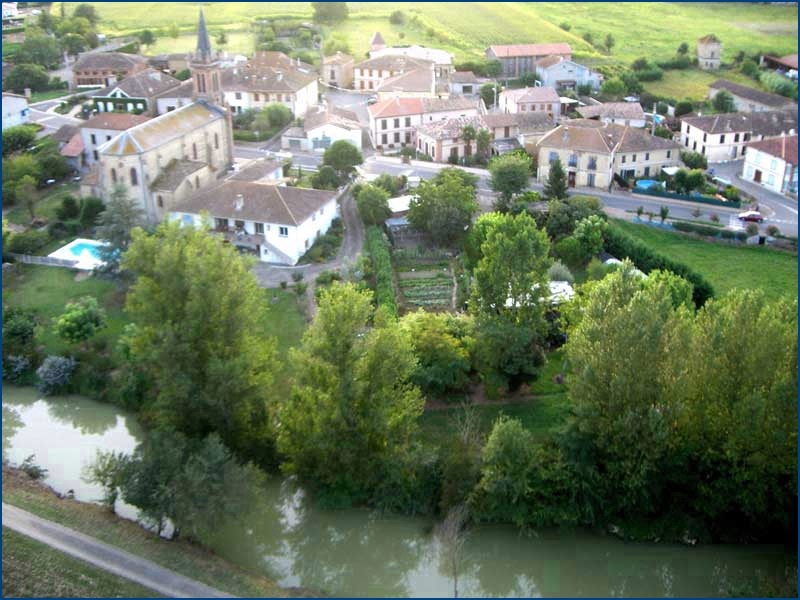 Aerial photo of Lafitte, Tarn-et-Garonne, Midi-Pyrénées